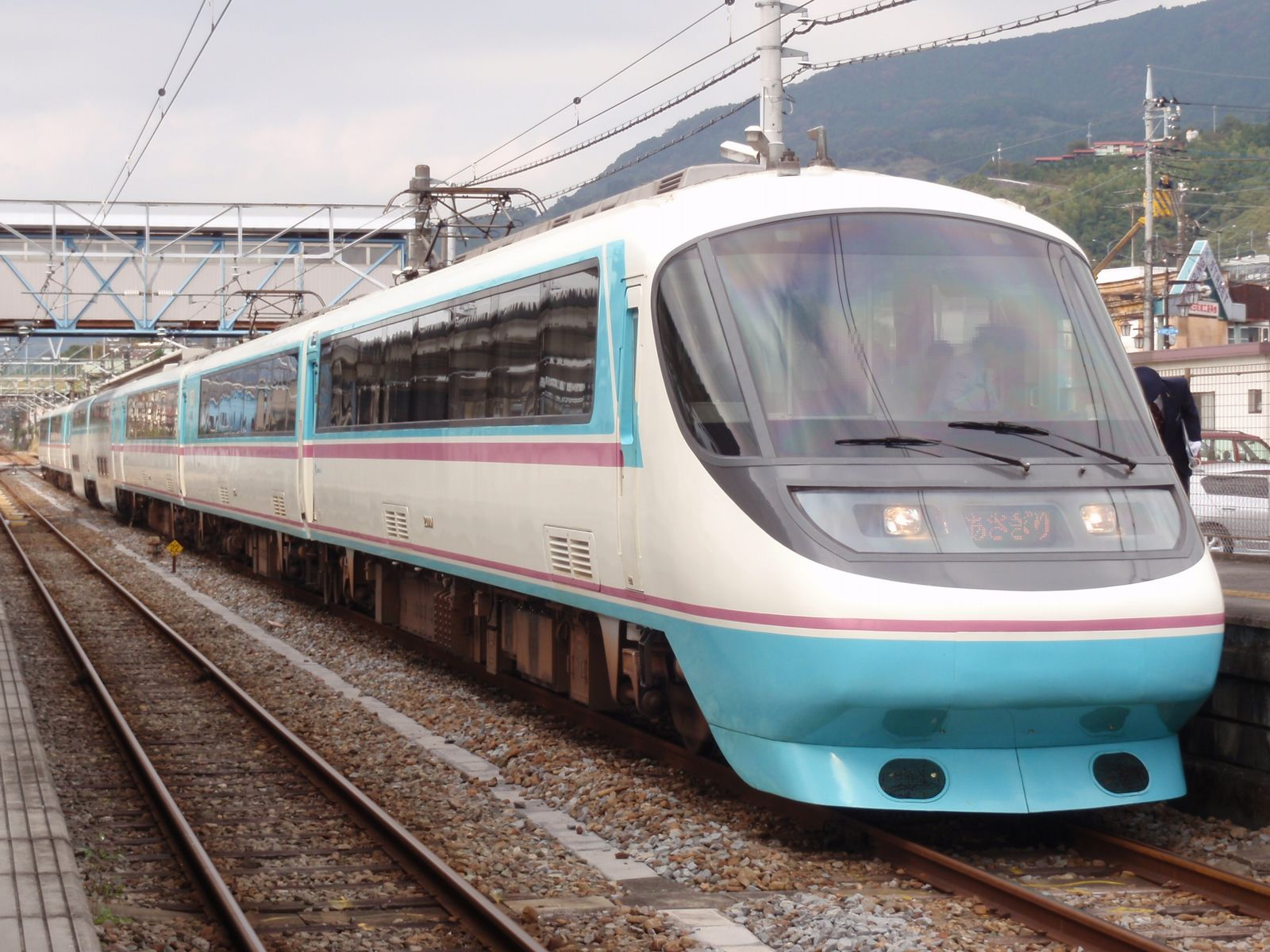 Odakyu 20000 series "RSE" EMU at Matsuda Station on an Asagiri service